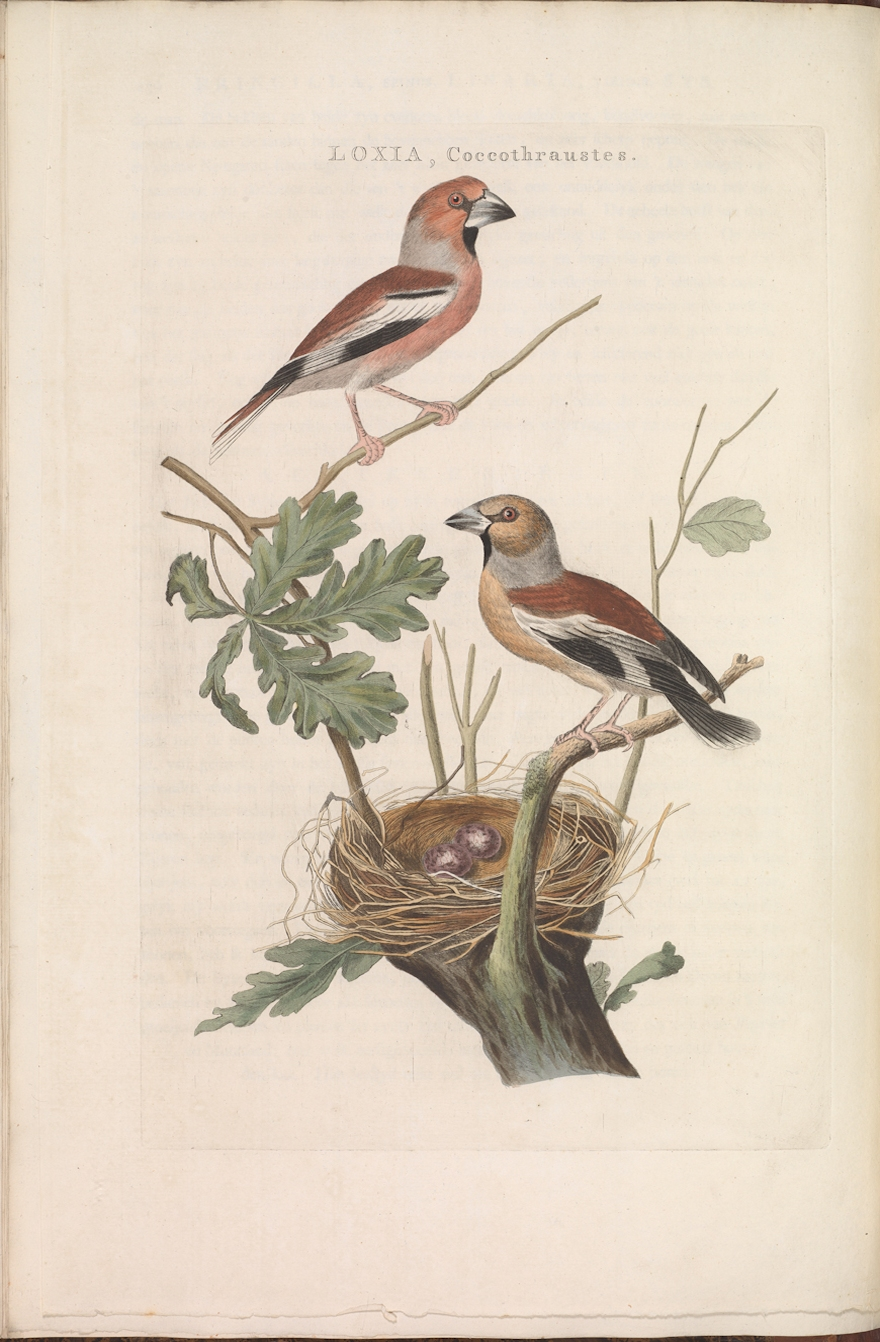 Plate 71 from the Nederlandsche vogelen by Nozeman and Sepp.